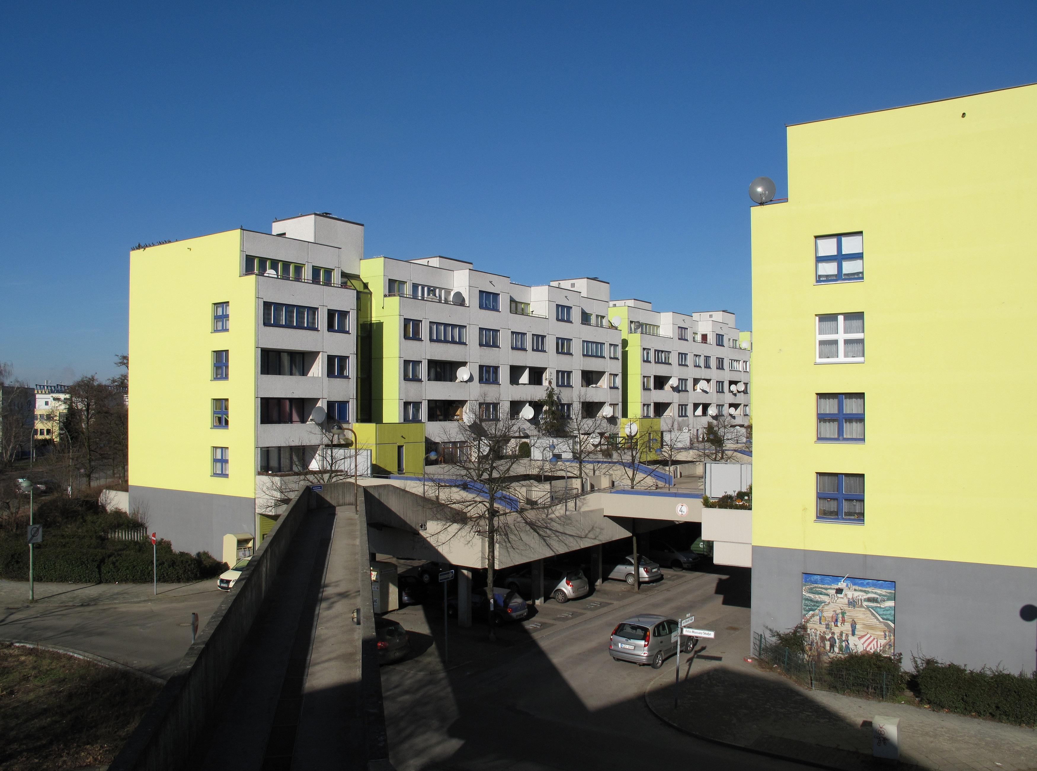 Southern deck of the Leo-Slezak-Straße in the High-Deck-Siedlung. The High-Deck-Siedlung is a housing estate in Berlin-Neukölln with ca. 6.000 inhabitants. The estate was built in the 1970s/1980s within the subsidized housing by the architects Rainer Oefelein and Bernhard Freund. Their innovative urban development concept counted on a structurally separation of pedestrians and traffic in opposition to Berlin's „urbanity through density“ conception (high-rise-estates) at that time. Above the streets spandrel-braced, green foot pathes (the High-Decks) connect the mainly five to six storied houses. Was the estate after it's construction regarded as the epitome of a tranquil and modern urban living at the green edge of West Berlin, it has evolved after the fall of Berlins Wall into a social hotspot. There was set up a neighbourhood management in 1999.